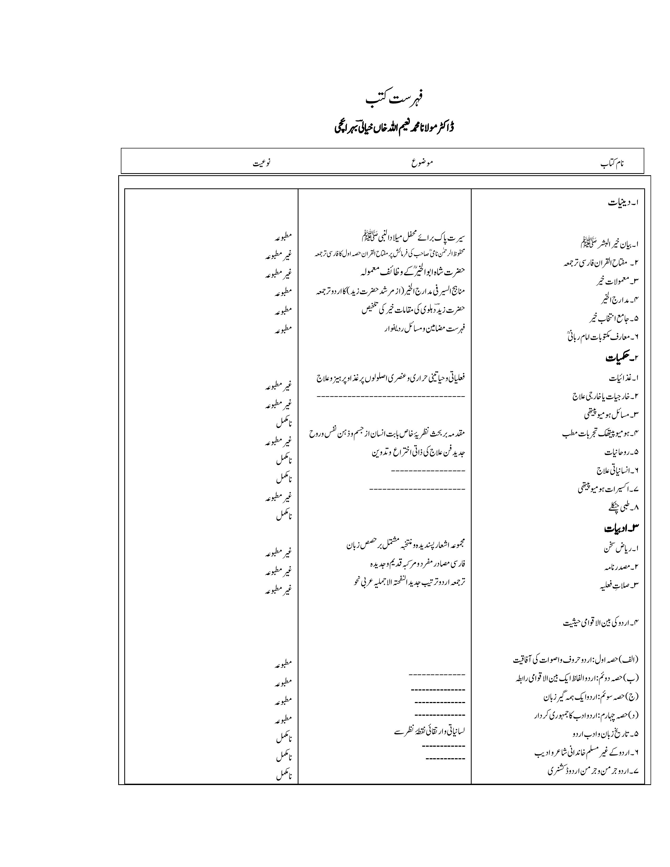 Book LIst Dr NaimUllah Khayali